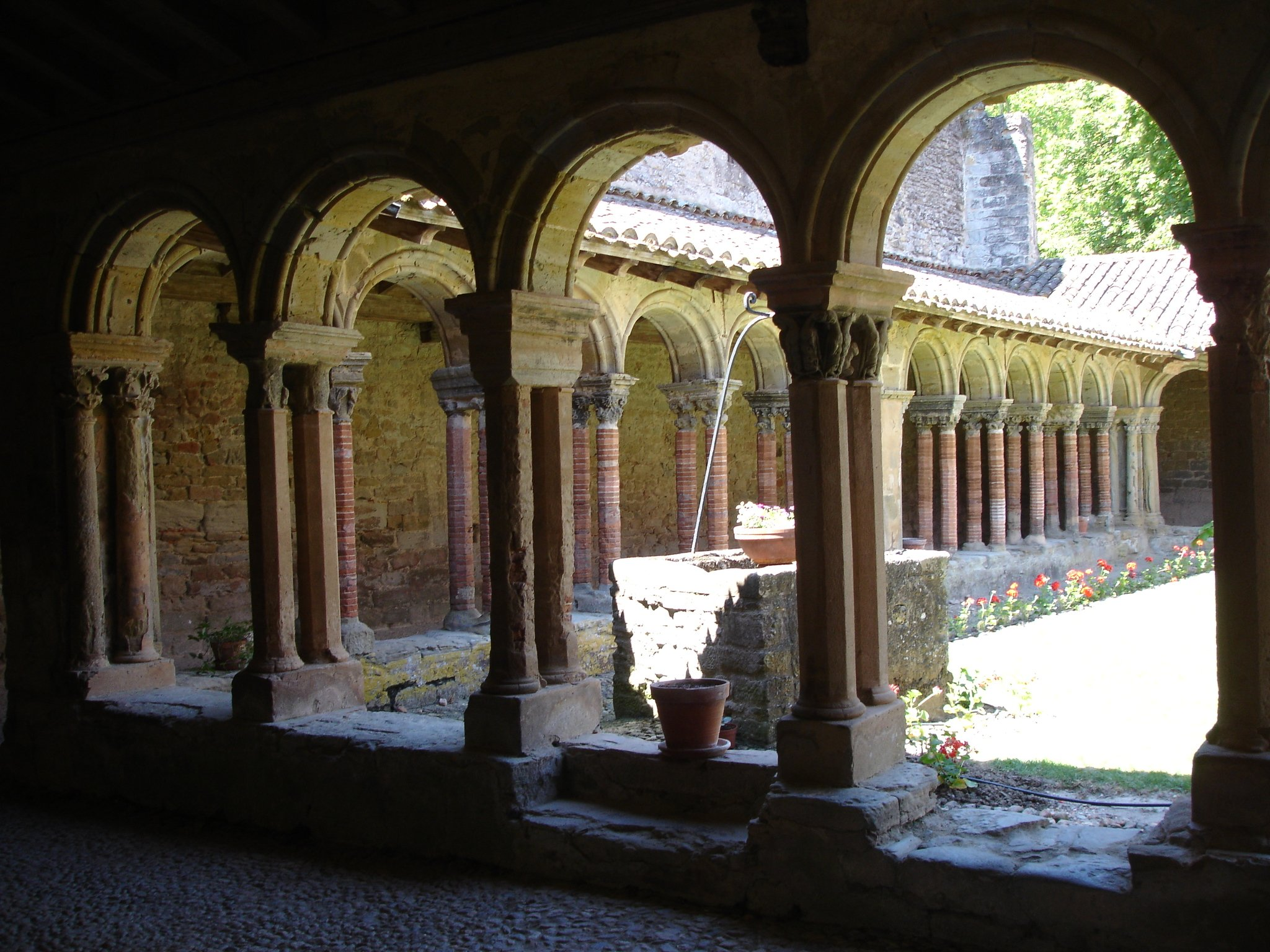 France, Aude, Saint-Papoul Abbey